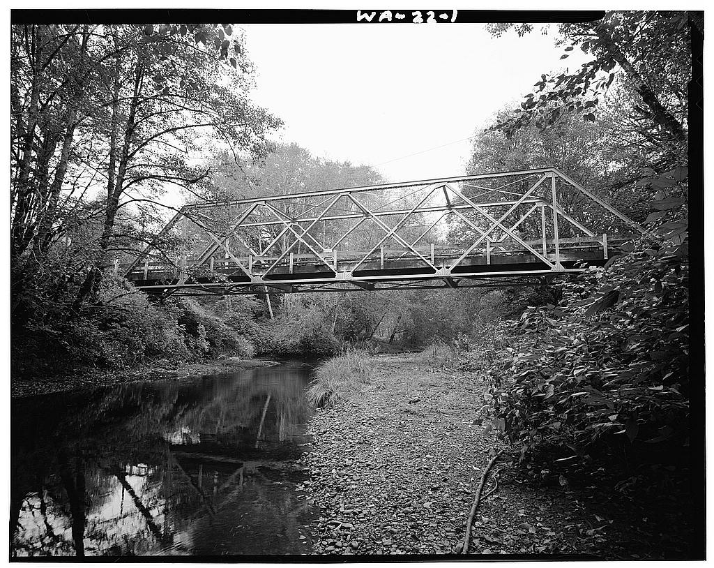 Wishkah River Bridge, near Aberdeen, Washington. Formerly listed on the National Register of Historic Places. HAER image.